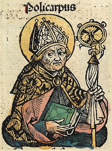 Illustration from the Nuremberg Chronicle